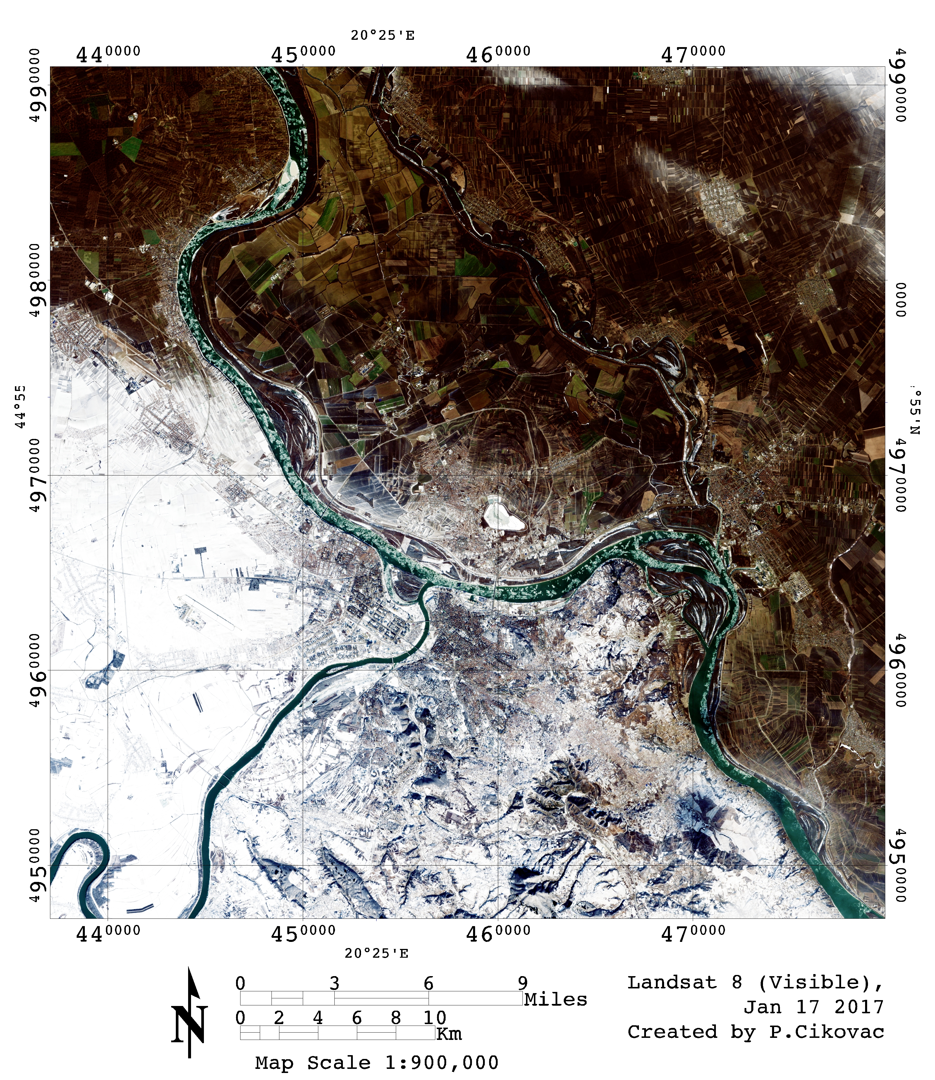 Danube at Belgrade 17 Jan 2017 Landsat 8 ETM+ visible spectre the frozen Danube during the cold spell on January 17th 2016